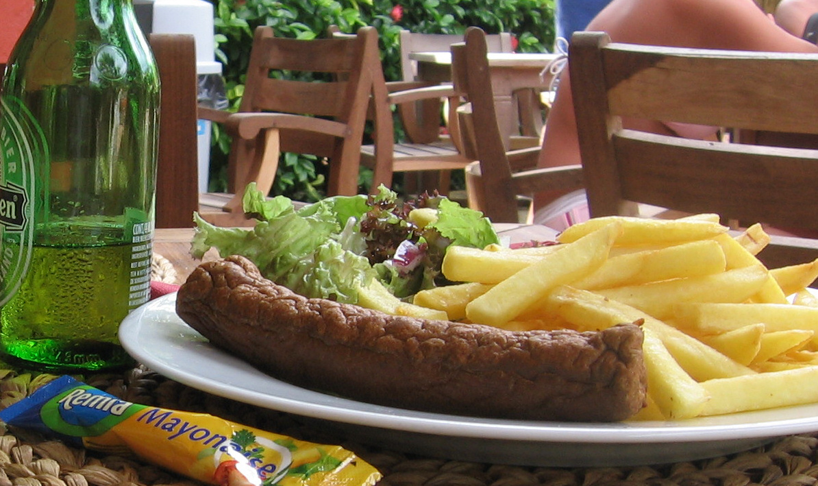 Image of a frikandel, a Dutch snack. Picture taken by myself on 2/18/2006.